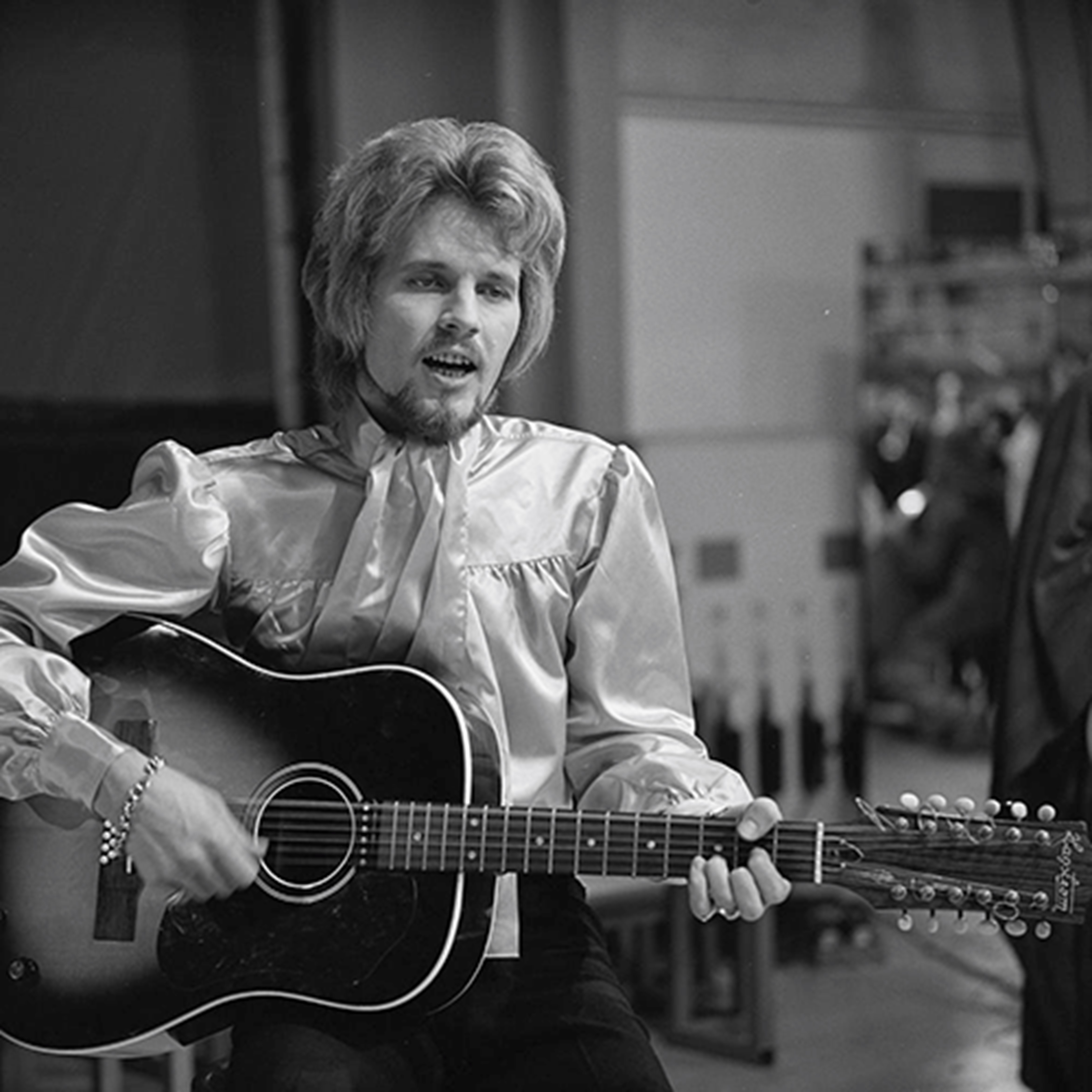 Singer John Walker recording for Dutch TV programme Fenklup, 5 April 1968 (broadcast 12 April 1968)